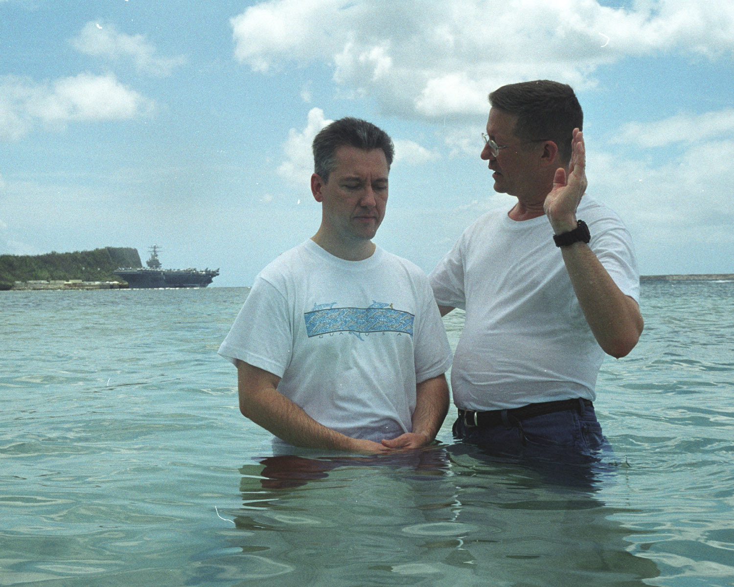 Apra Harbor, Guam (Apr. 20, 2003) - Lt. Cmdr. Richard Inman, ships chaplain assigned to USS Carl Vinson (CVN 70), prepares to baptize electronics technician chief Geoffrey Ormston from Bremerton, Wash., in the waters of Apra Harbor, Guam on Easter Sunday. The Carl Vinson Carrier Strike Group (CSG) is participating in the military training exercise "Tandem Thrust 03" in the Marianas Island training area. The exercise will focus on crisis action planning and execution of contingency response operations.